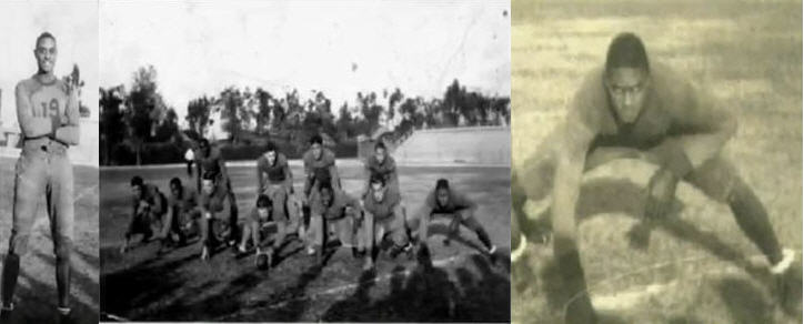 Woody Strode — lines up as end on the Jefferson High football team. In 1936 — South Los Angeles, California.